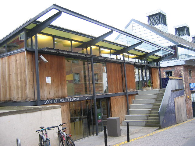 Scottish Poetry Library, Crichton's Close, Canongate, Edinburgh Designed by Malcolm Fraser Architects, shortlisted for Channel 4's Building of the Year 200 [sic]